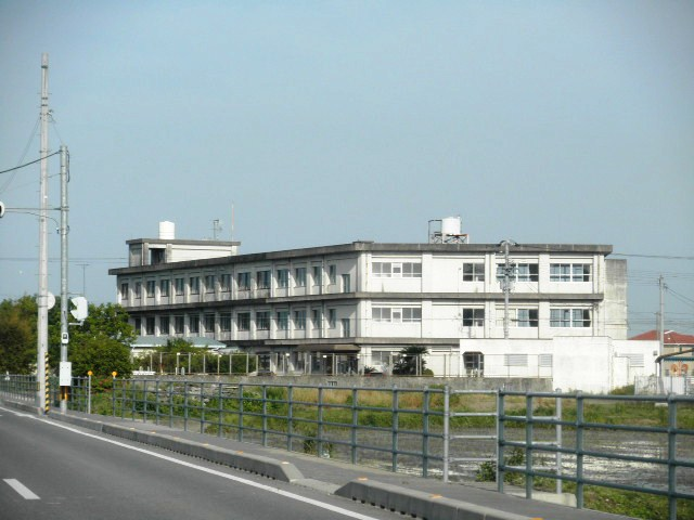 Shinbari elementary school